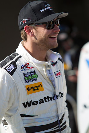 Cooper MacNeil